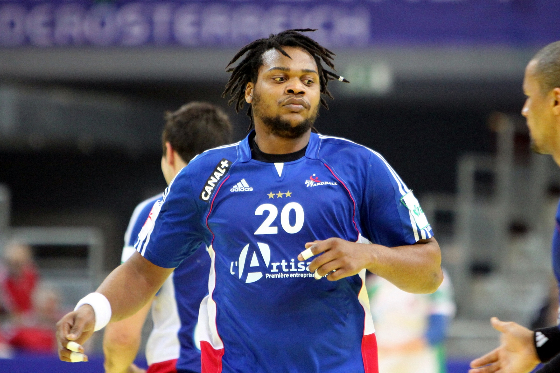 Cédric Sorhaindo (Paris HB), France national handball team